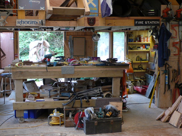 Sandy's workshop The workshop of 'Sandy the cabinetmaker' at Kinloch. This is actually the old swimming baths for Kinloch Castle.